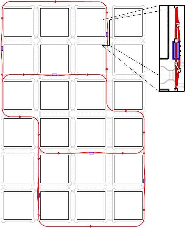 This picture shows the layout of a possible PRT layout. The blue rectangles indicate stations, and the bulge around the stations is an attempt to depict that the stations are off the main track - an off-ramp-like track leads to and from stations. Modified version of Skybum's public domain image to include detail of station bypass. This also replaces the original concept picture by me (JJLatWiki).